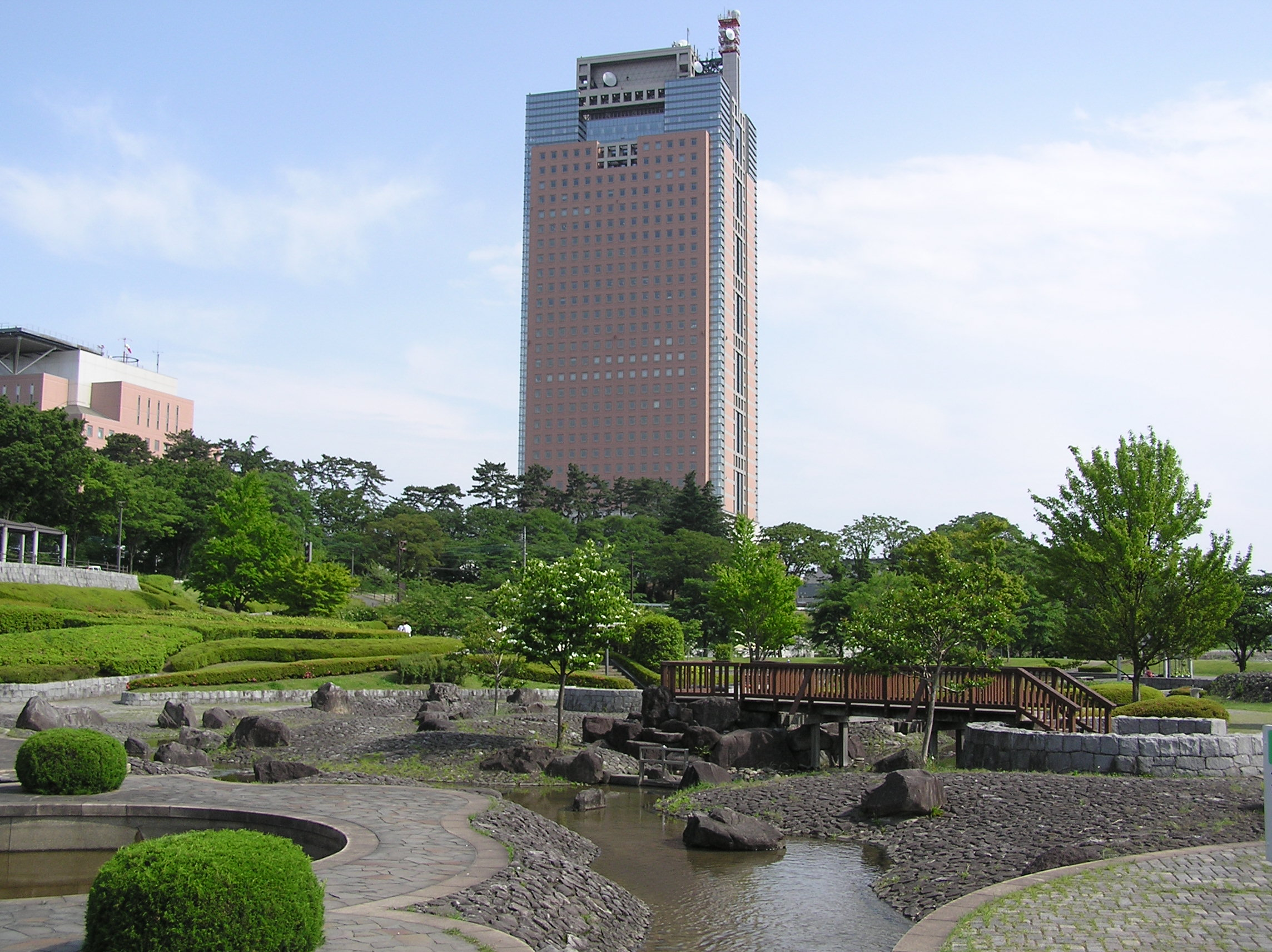 Maebashi Park with Gunma Prefectural Government Building